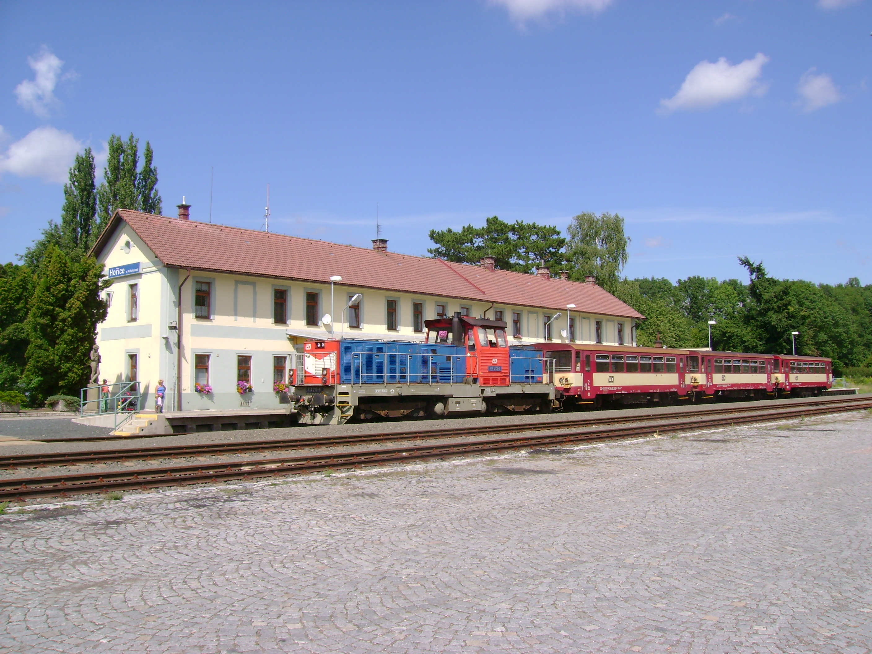 Passenger train, ČD Class 714. Train station Hořice v Podkrkonoší, railway line 041, in Hořice, the Czech Republic.